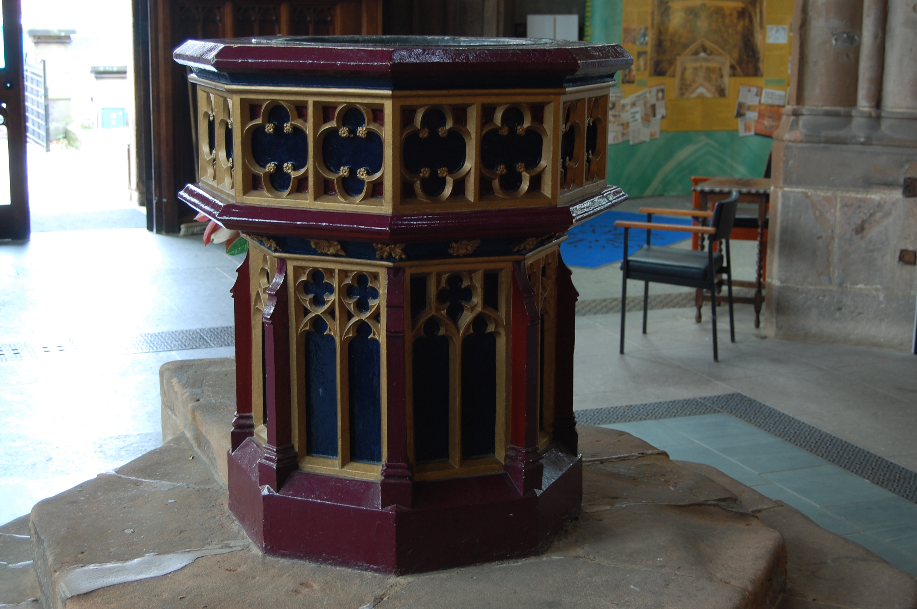 Baptismal font of Holy Trinity parish church, Coventry, England